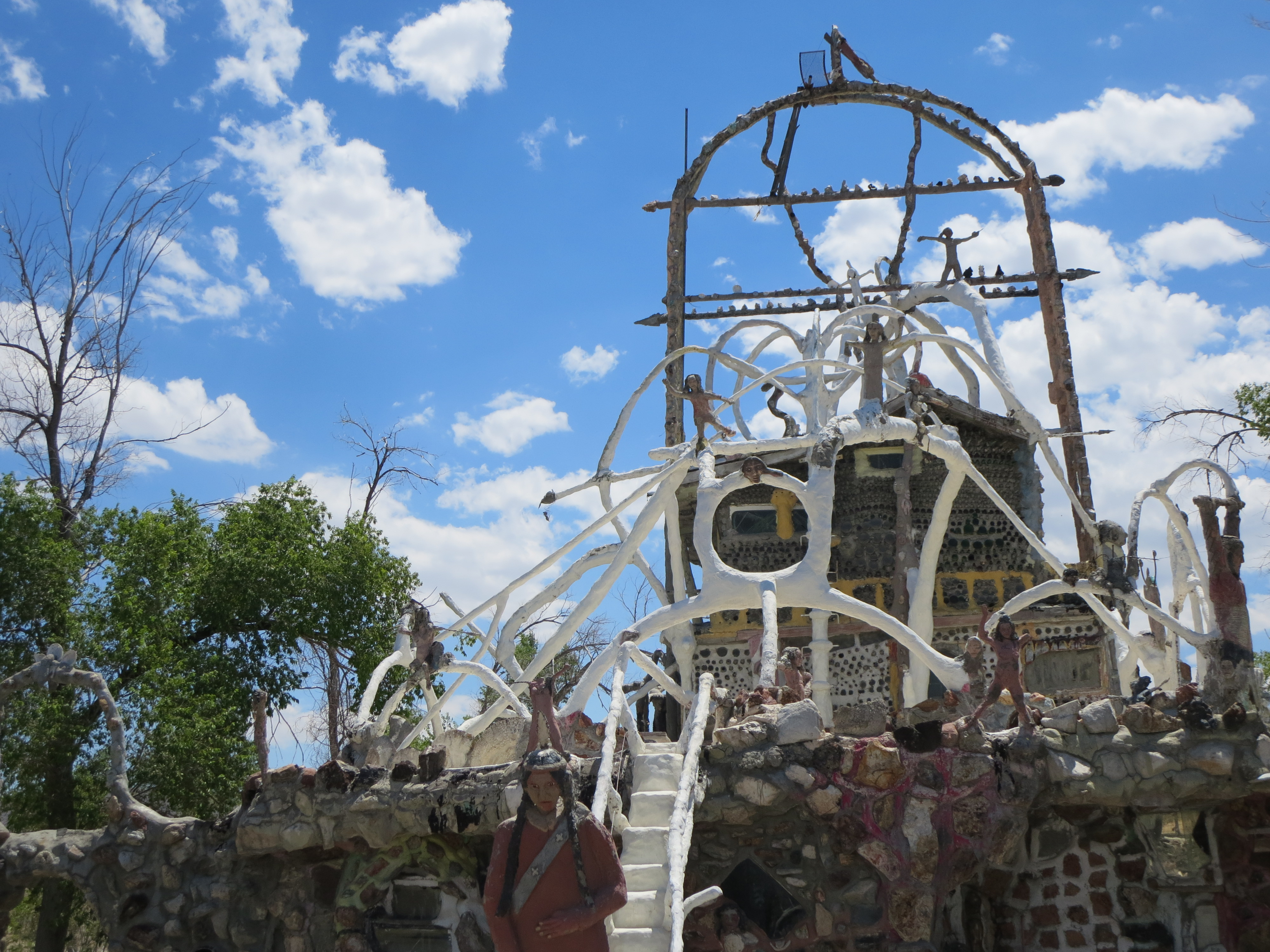 Thunder Mountain Monument, Inlay NV (17)